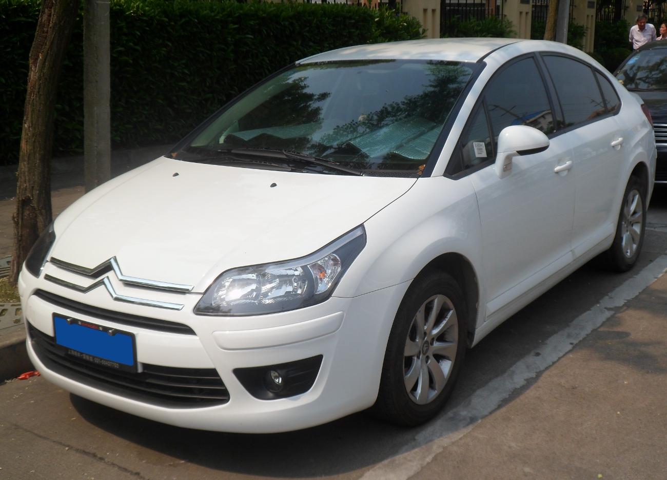 Citroën C-Quatre sedan photographed in Shanghai, China.